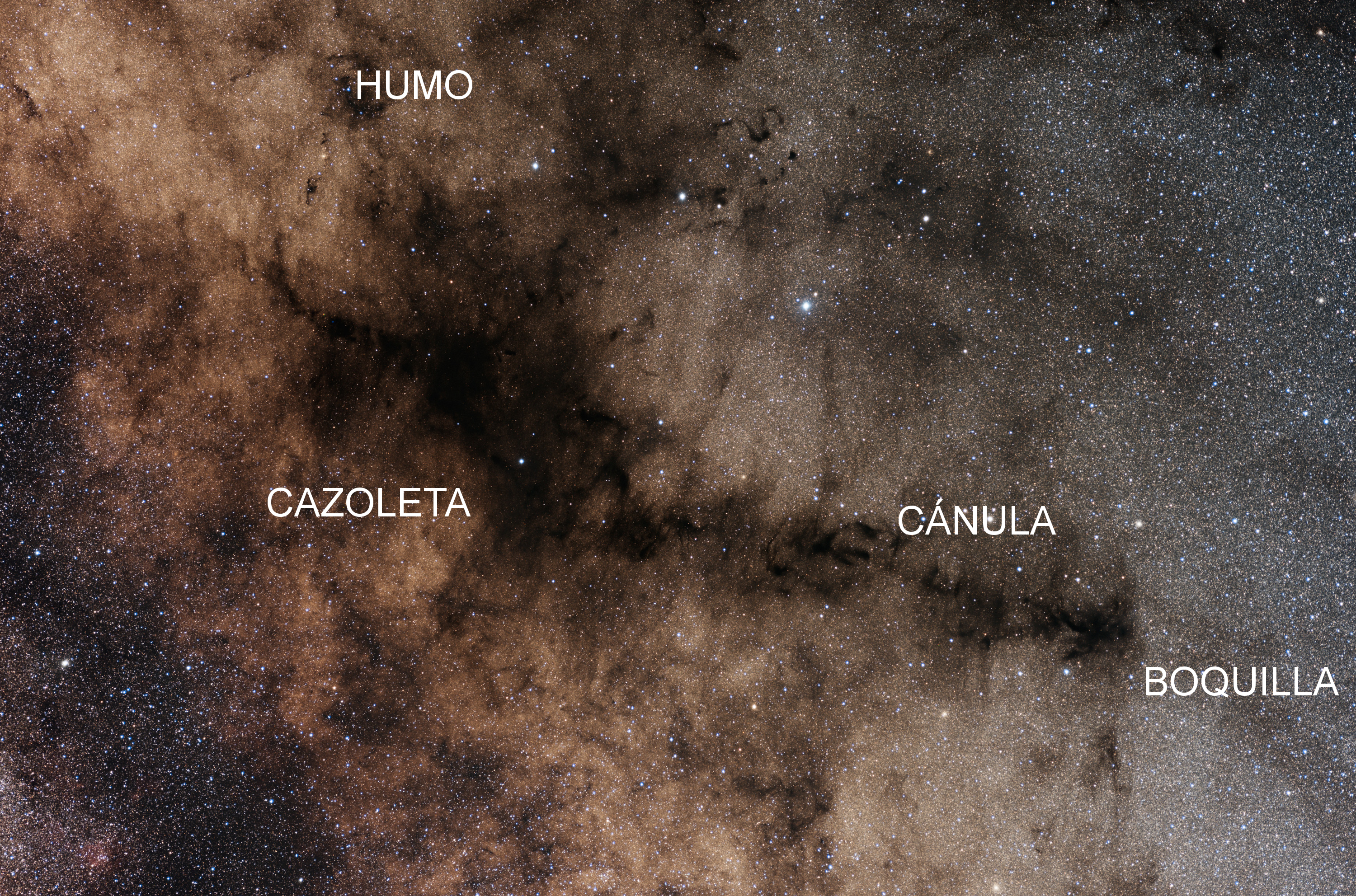 Photo of the Pipe Nebula